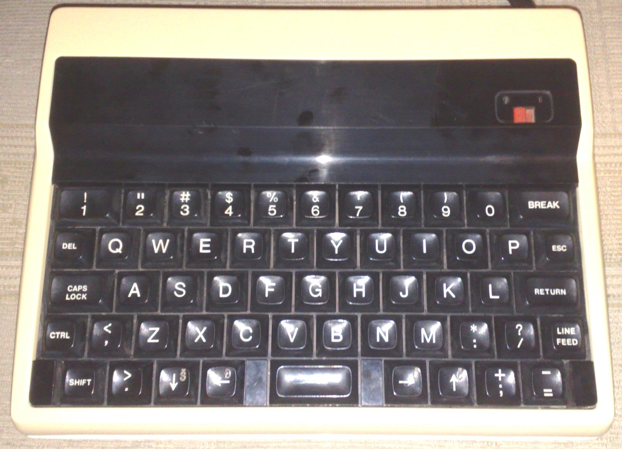 Pecom 64